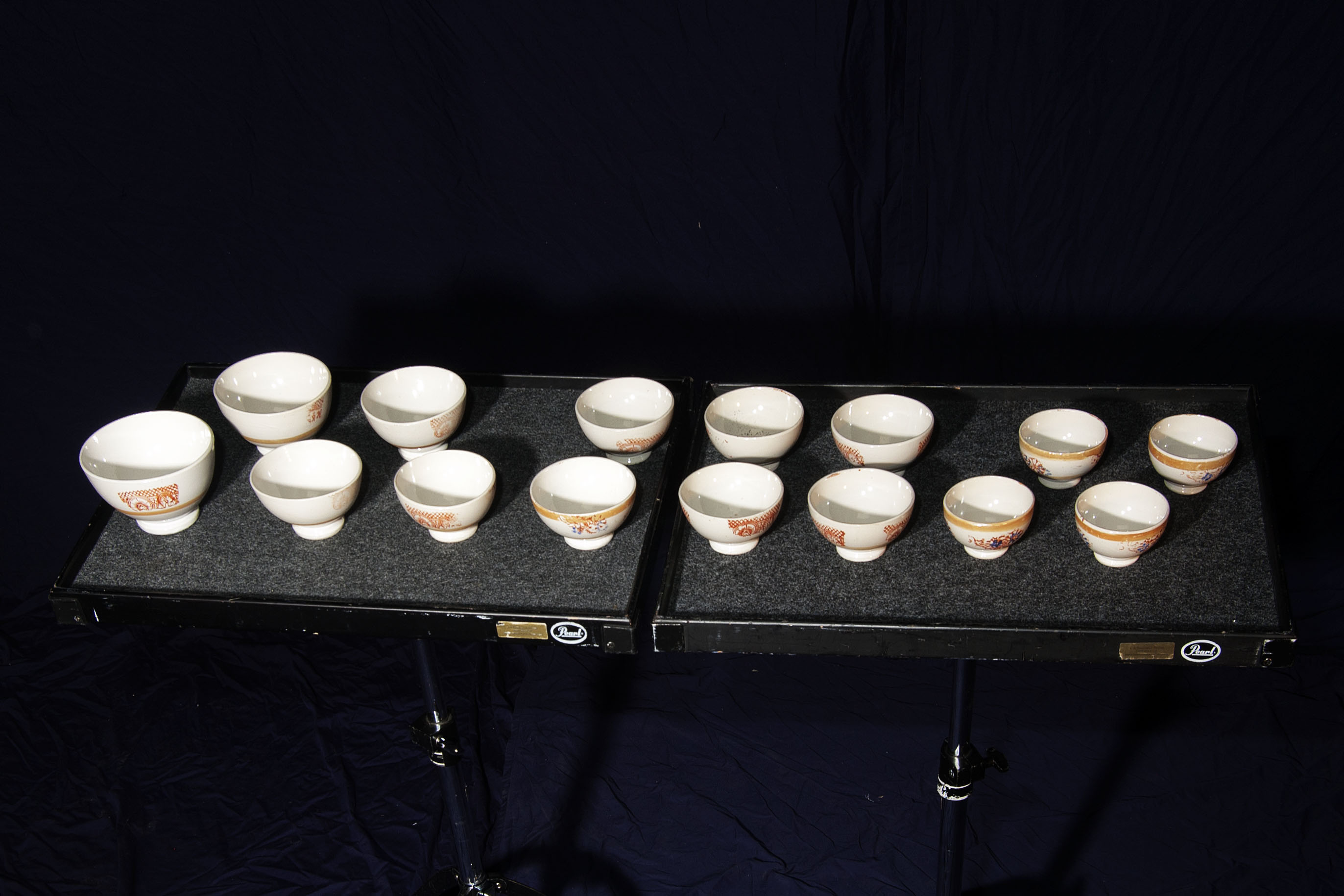 Jal tarang (from Emil Richards Collection). Range C6-F7.